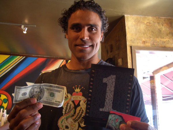 Rick Fox holding a postcard for The 1 Second Film.